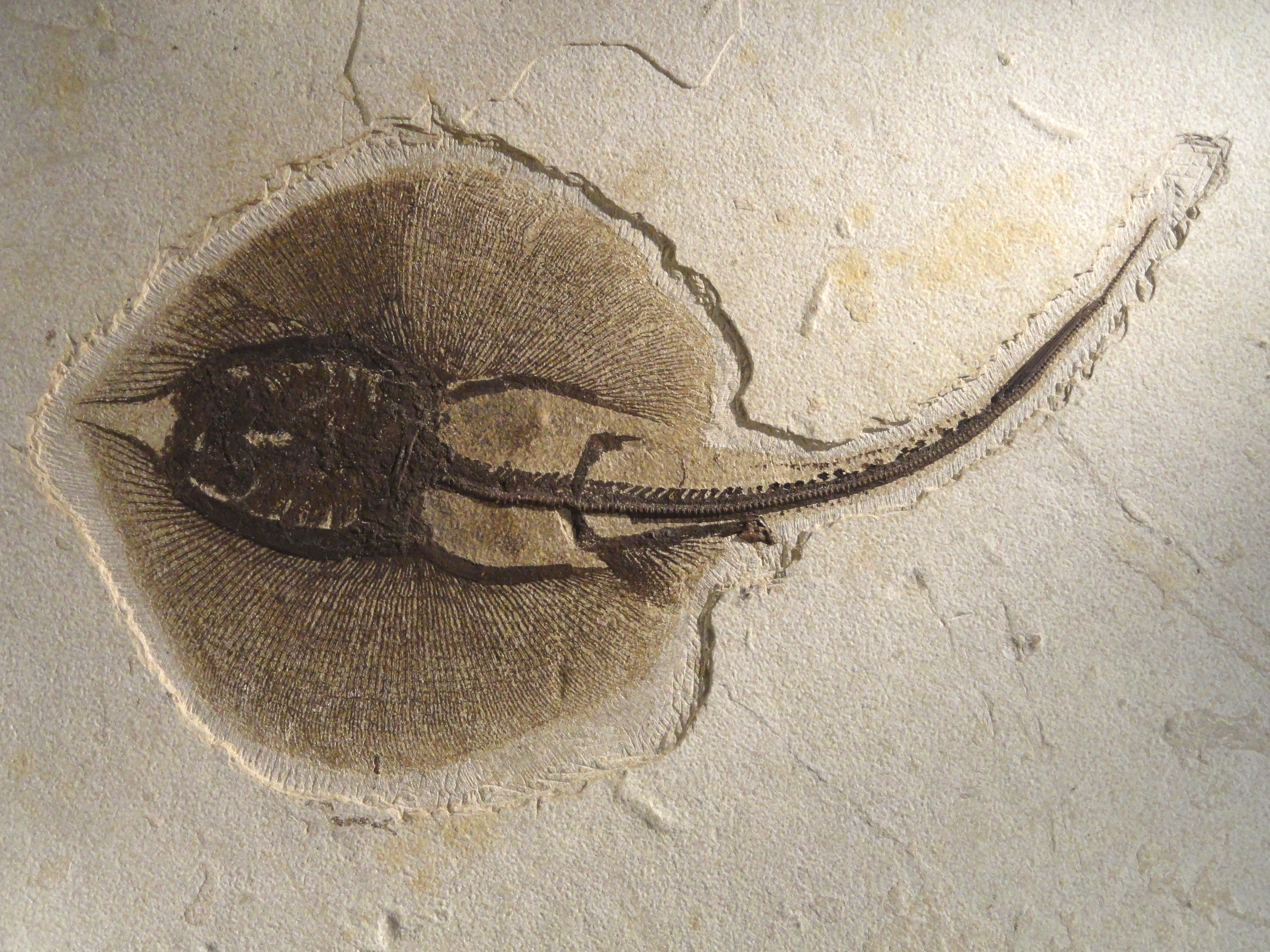 Heliobatis radians fossil specimen in the Natural History Museum of Utah, Salt Lake City, Utah, USA.